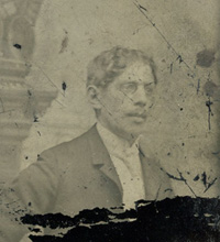 This is an old tin-type photograph of Ignace Schott de Dabo, father of Leon Dabo. It was contained in the estate of Leon Dabo. Ignace Schott